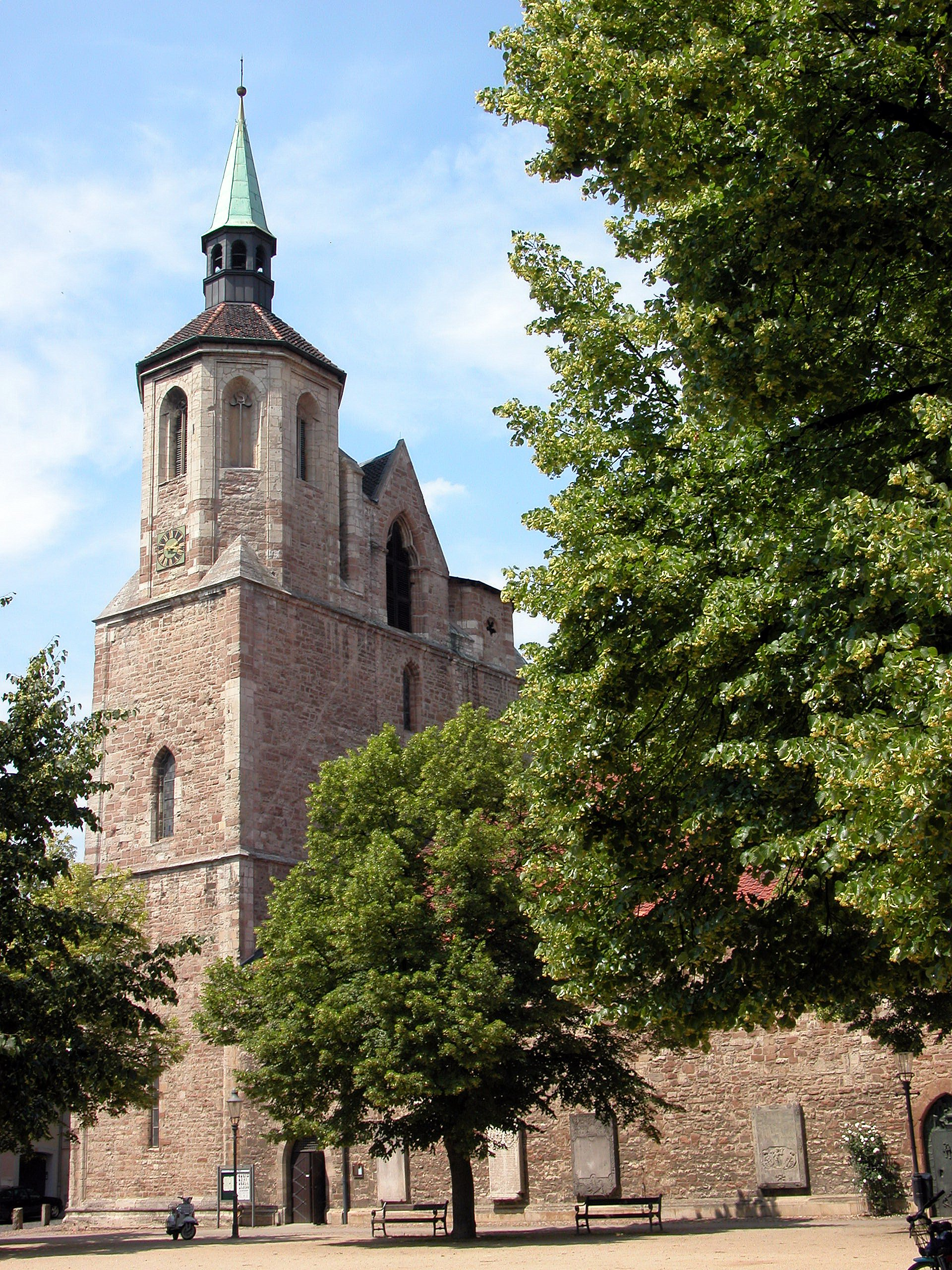 Braunschweig, Germany: St. Magnus’ Church as seen from the southeast.